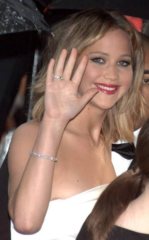 Jennifer Lawrence at the Cannes film festival